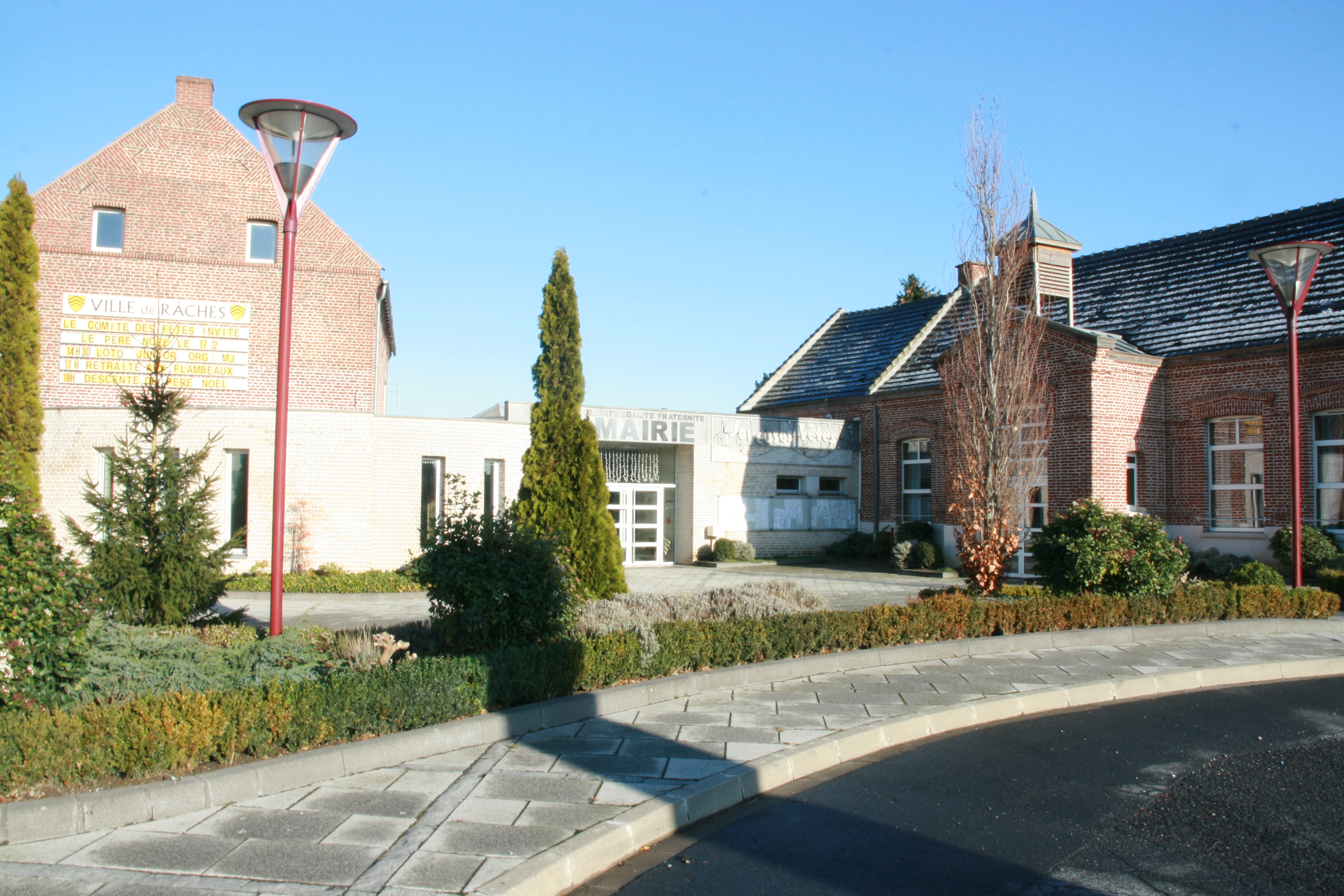 Depicted place: Q68674004